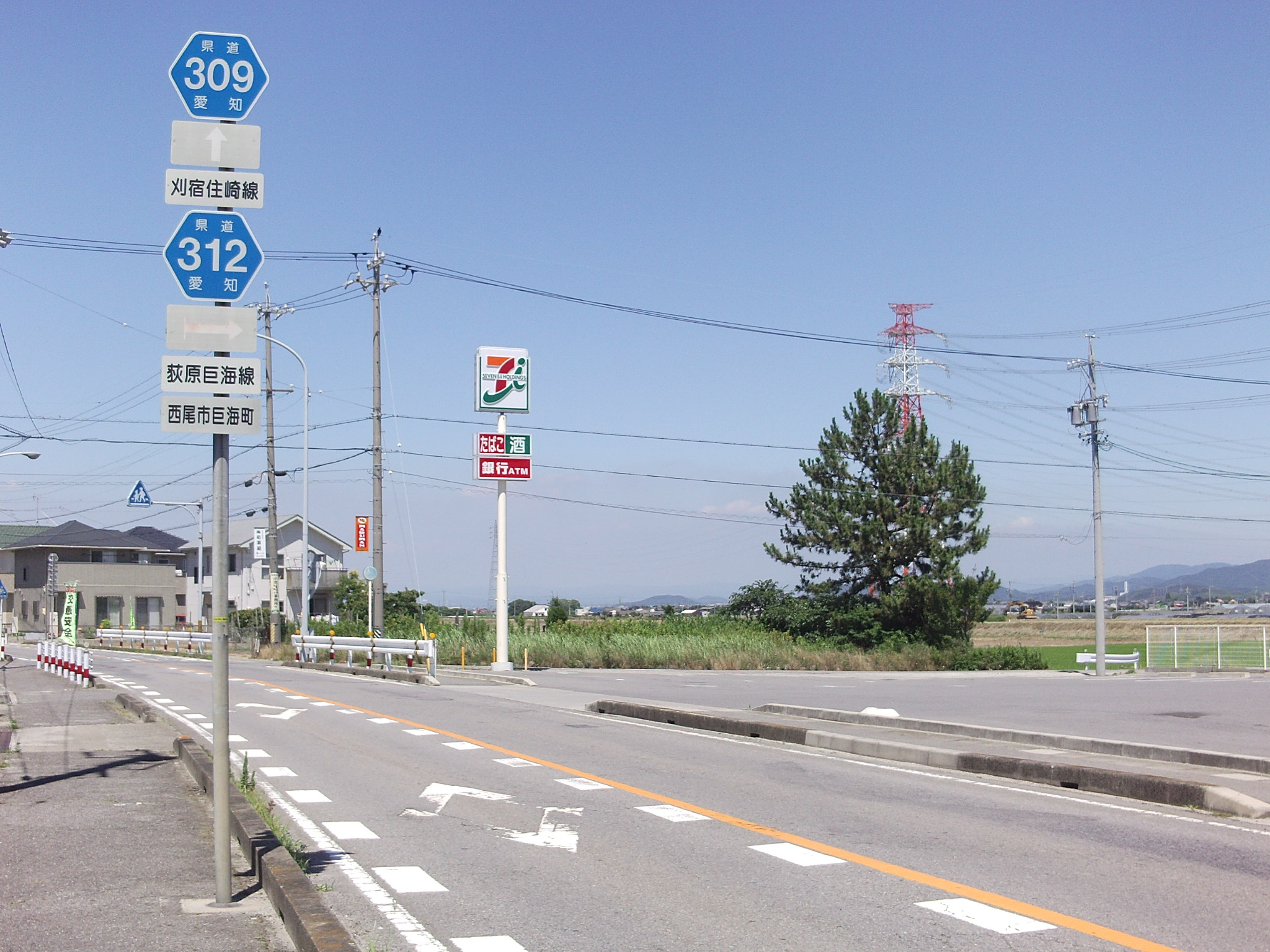 Aichi prefectural road No.309 in Komicho, Nishio, Aichi. The right side prefectural road is the end of No.312.